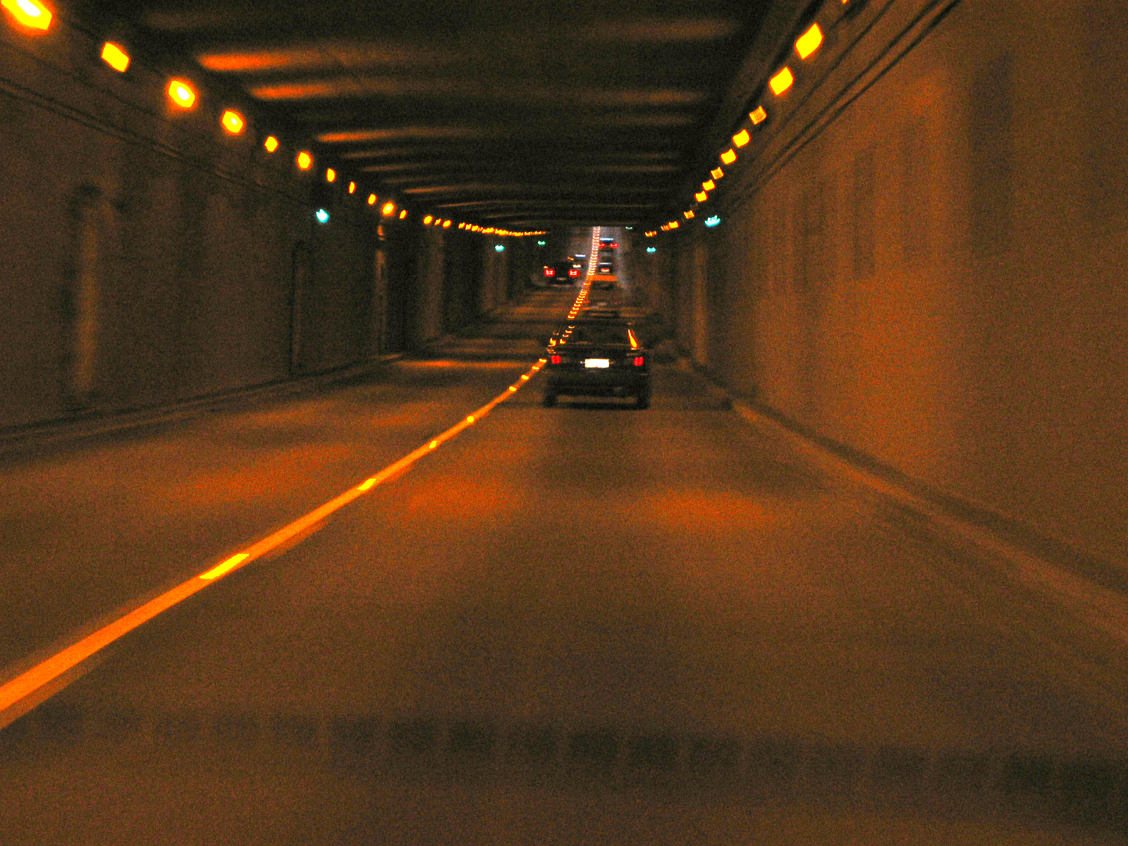 A shot of the inside of the George Massey tunnel as I rode in a car through it. Image has been significantly brightened.